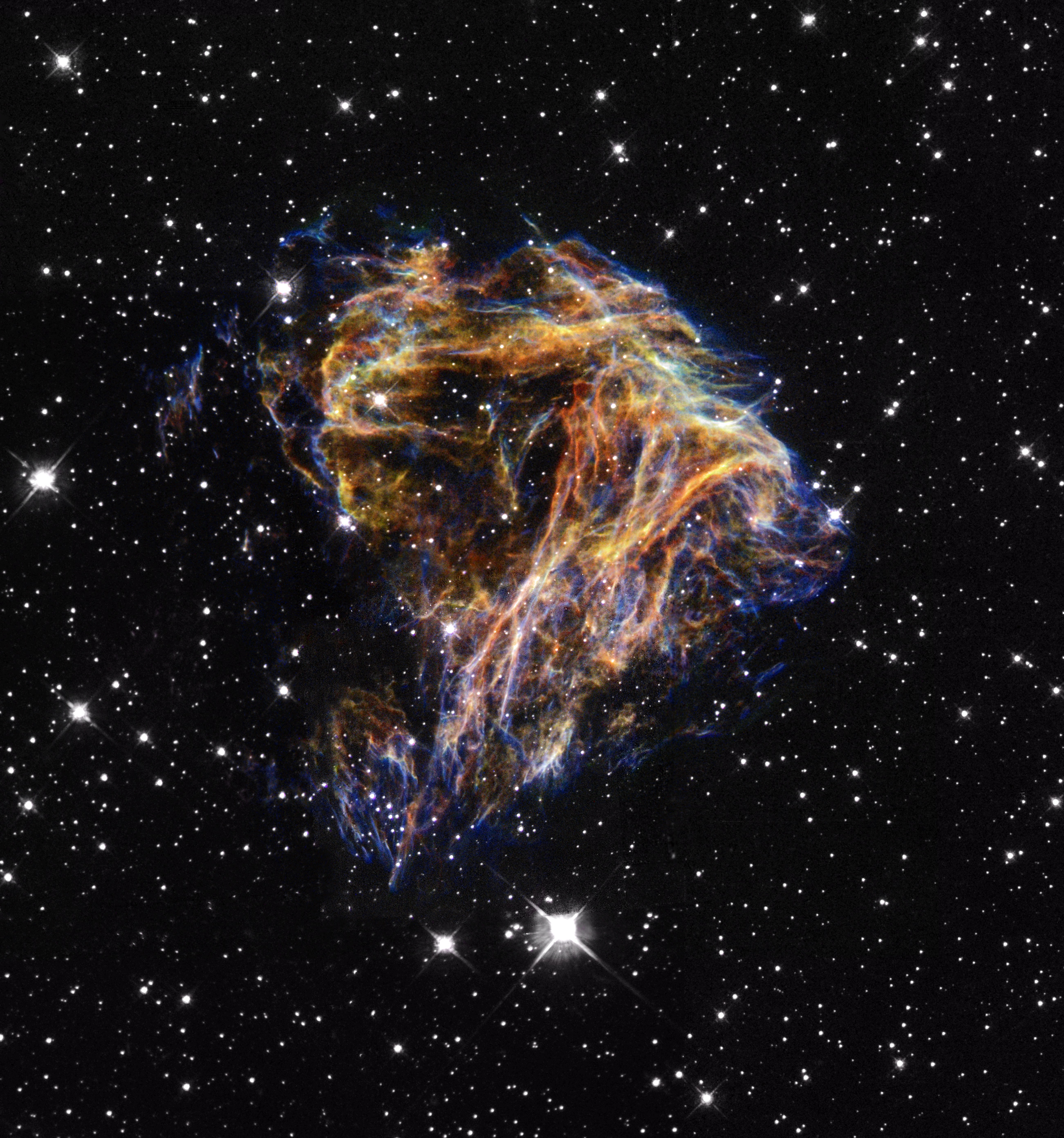 Resembling the puffs of smoke and sparks from a summer fireworksdisplay in this image from NASA/ESA Hubble Space Telescope, these delicate filaments are actually sheets of debris from a stellar explosion in a neighboring galaxy. Hubble's target was a supernova remnant within the Large Magellanic Cloud (LMC), a nearby, small companion galaxy to the Milky Way visible from the southern hemisphere. Denoted N 49, or DEM L 190, this remnant is from a massive star that died in a supernova blast whose light would have reached Earth thousands of years ago. This filamentary material will eventually be recycled into building new generations of stars in the LMC. Our own Sun and planets may have been constructed from similar debris of supernovae that exploded in the Milky Way billions of years ago.